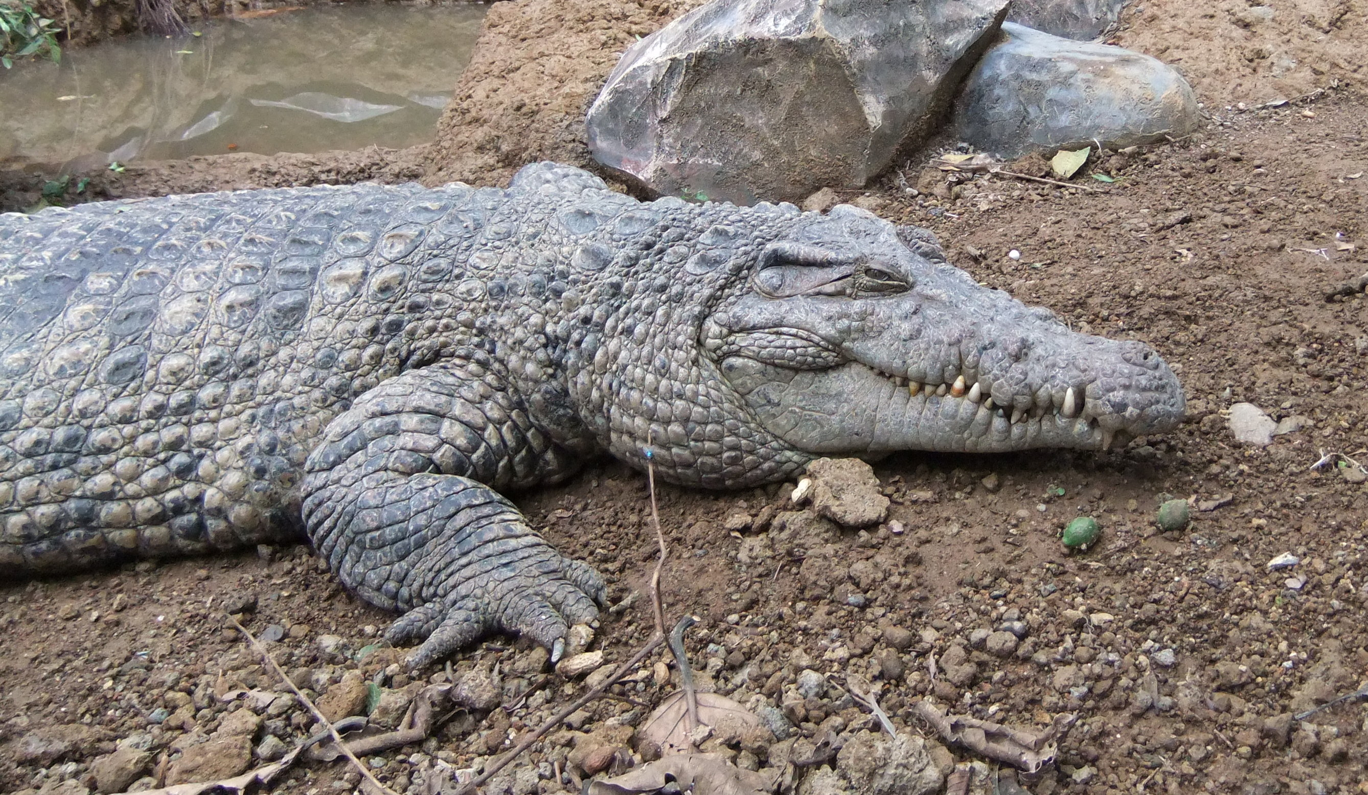 Saltwater Crocodile (Crocodylus novaeguineae), Bandung Zoo, Bandung, West Java, Indonesia